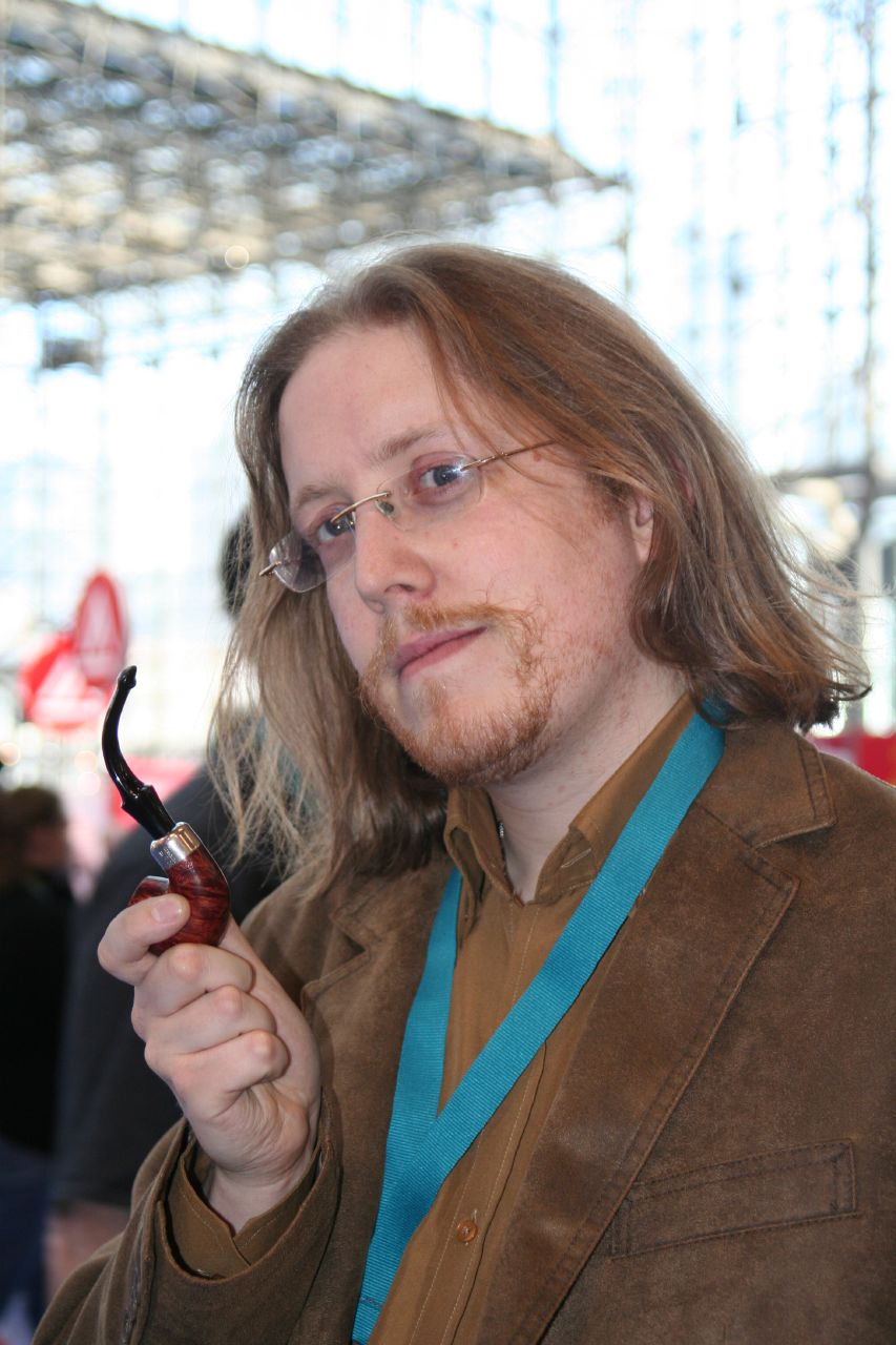 Rich Johnston, online comic book industry columnist.